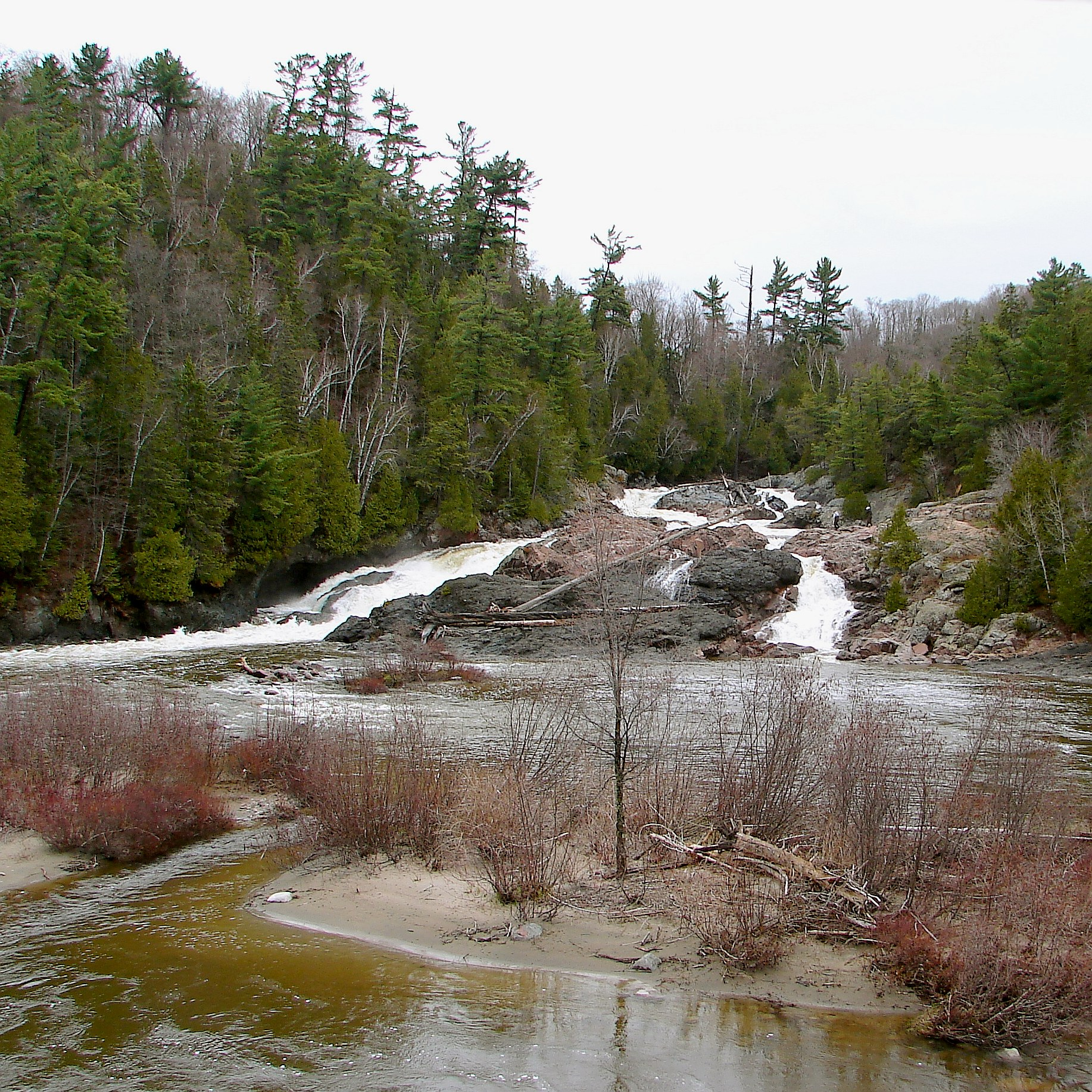 Chippewa River and falls near Highway 17, Ontario, Canada